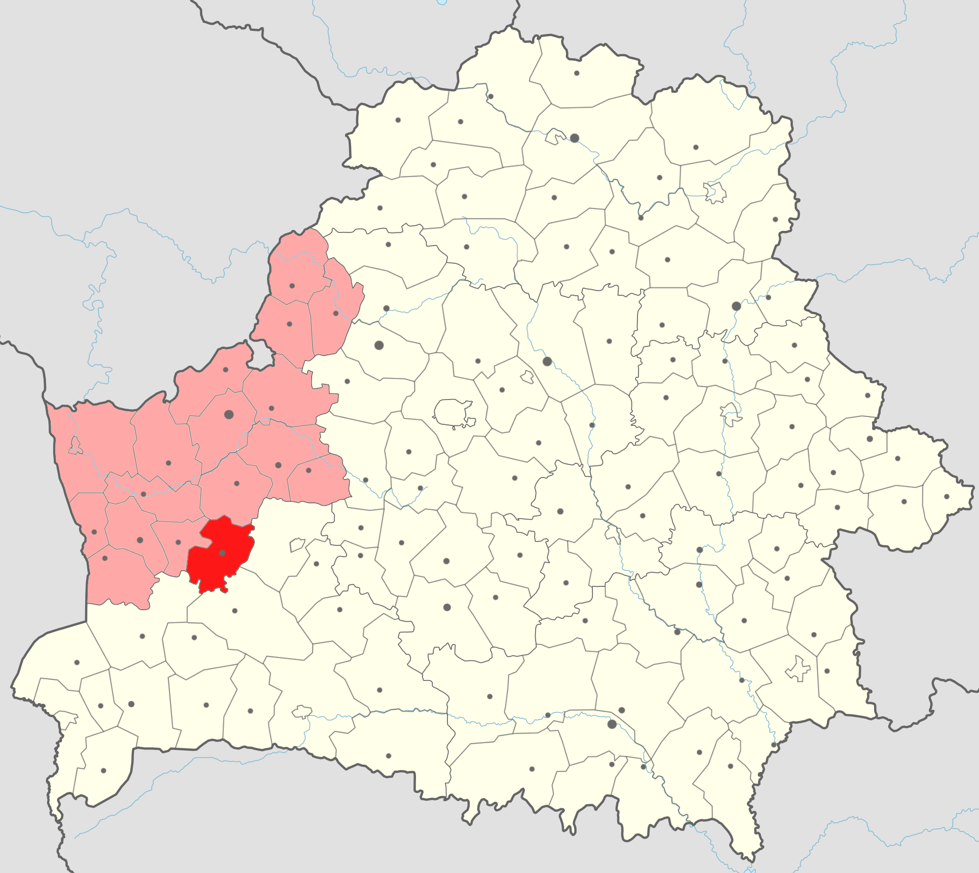 Map of Slonimski rayon (in red) with Hrodna voblast' (in light red) on the map of Belarus.